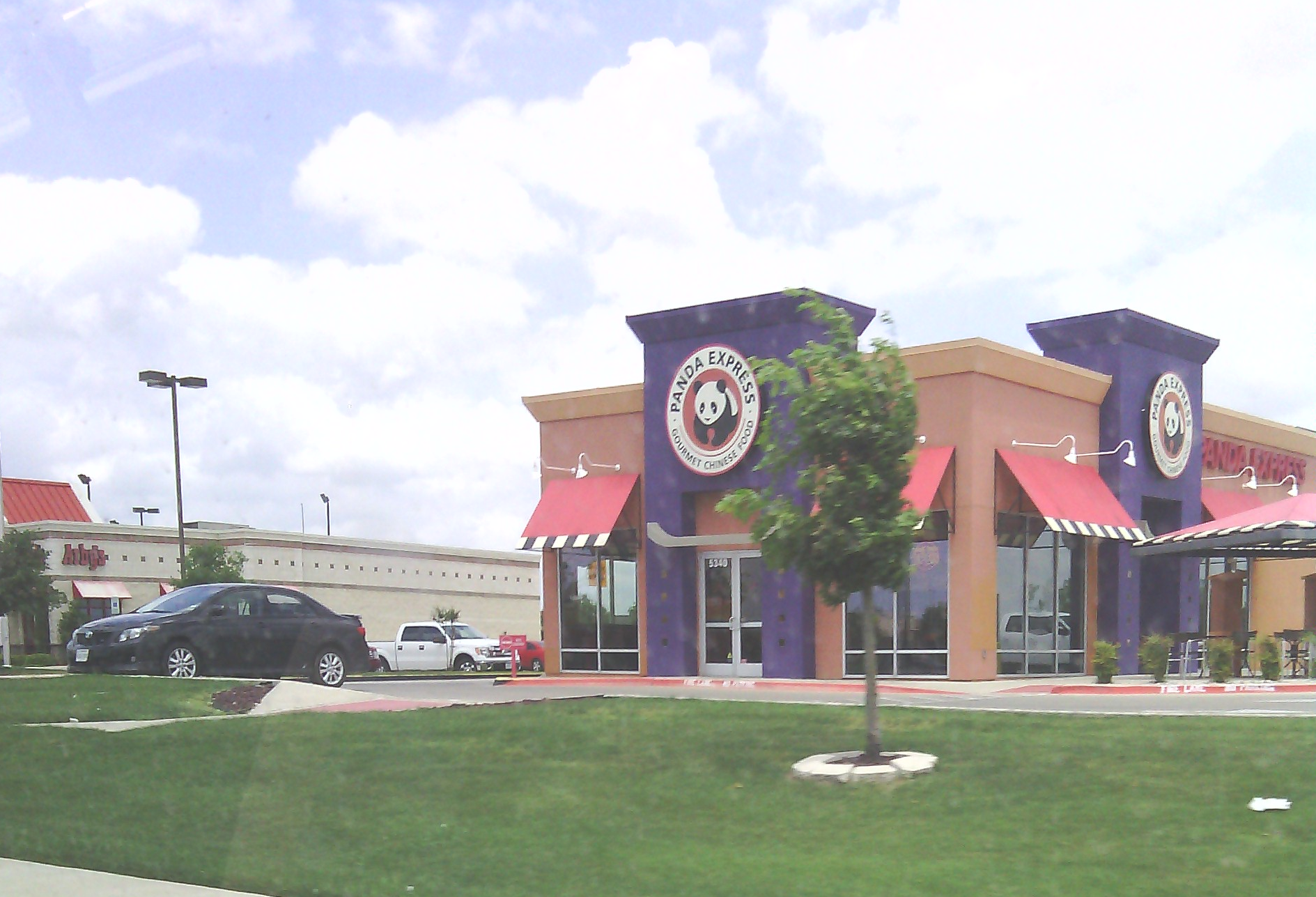 A typical Panda Express Restaurant in Fort Worth, Texas. This photo was taken on a ZTE N9120 (Android).